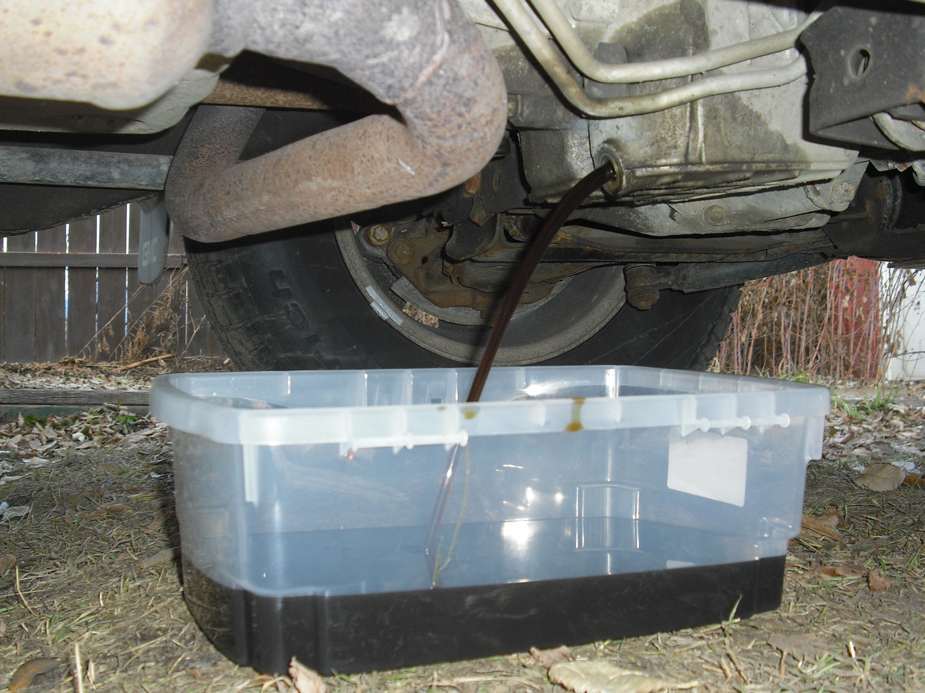 Oil being drained from a GMC Sport Utility Vehicle.